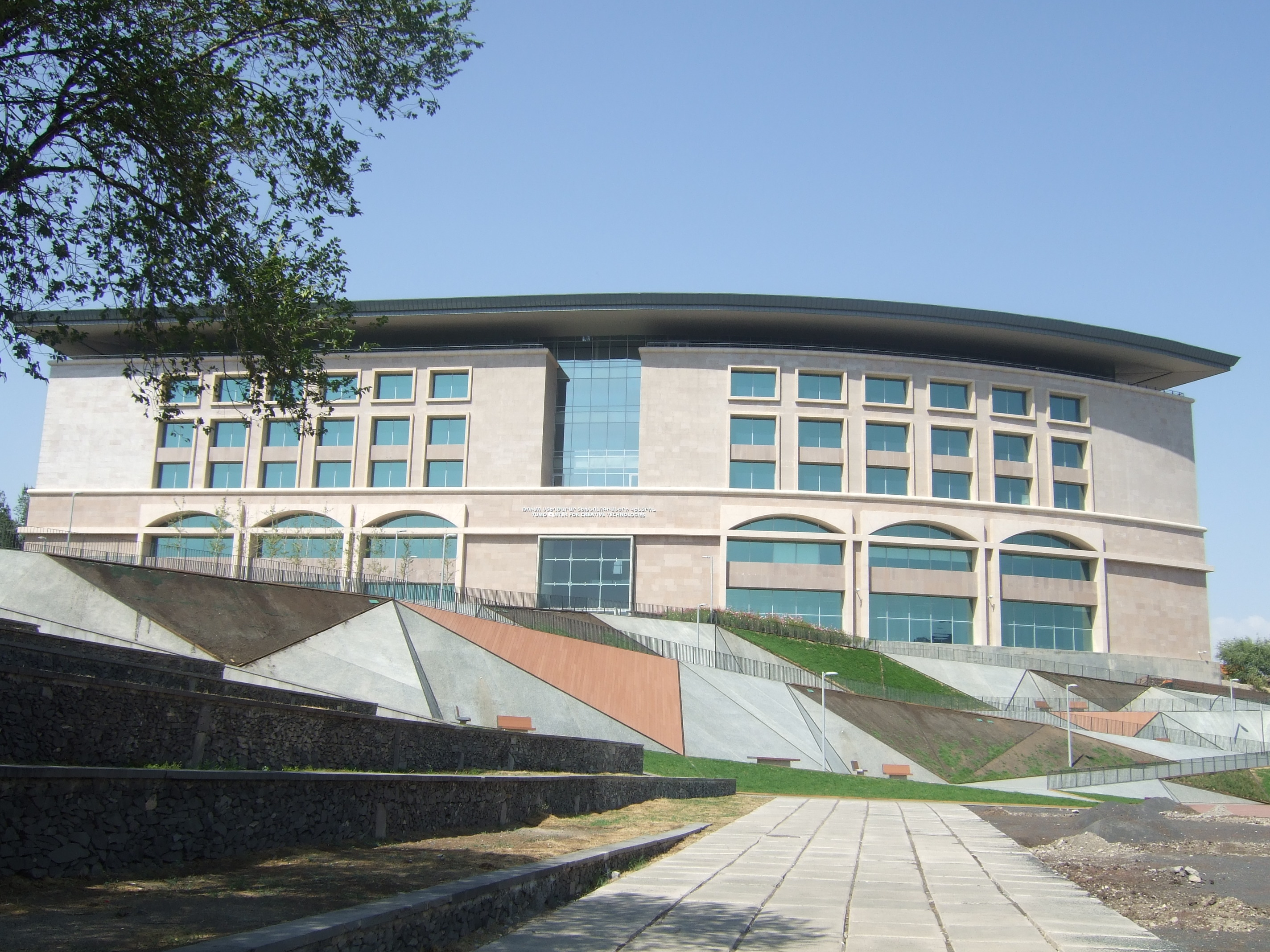 Tumo Center for Creative Technologies near Tumanyan aygi, Yerevan, Armenia